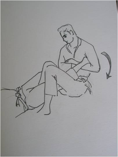 BJJ